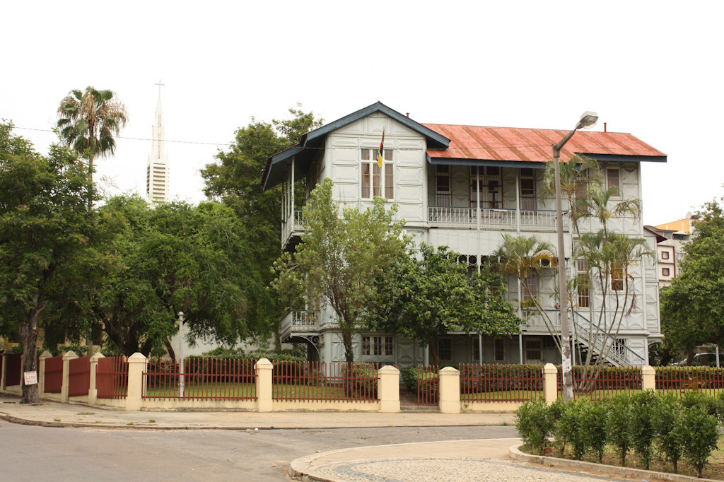 The "Iron House" (Casa de Ferro) in Maputo, Mozambique